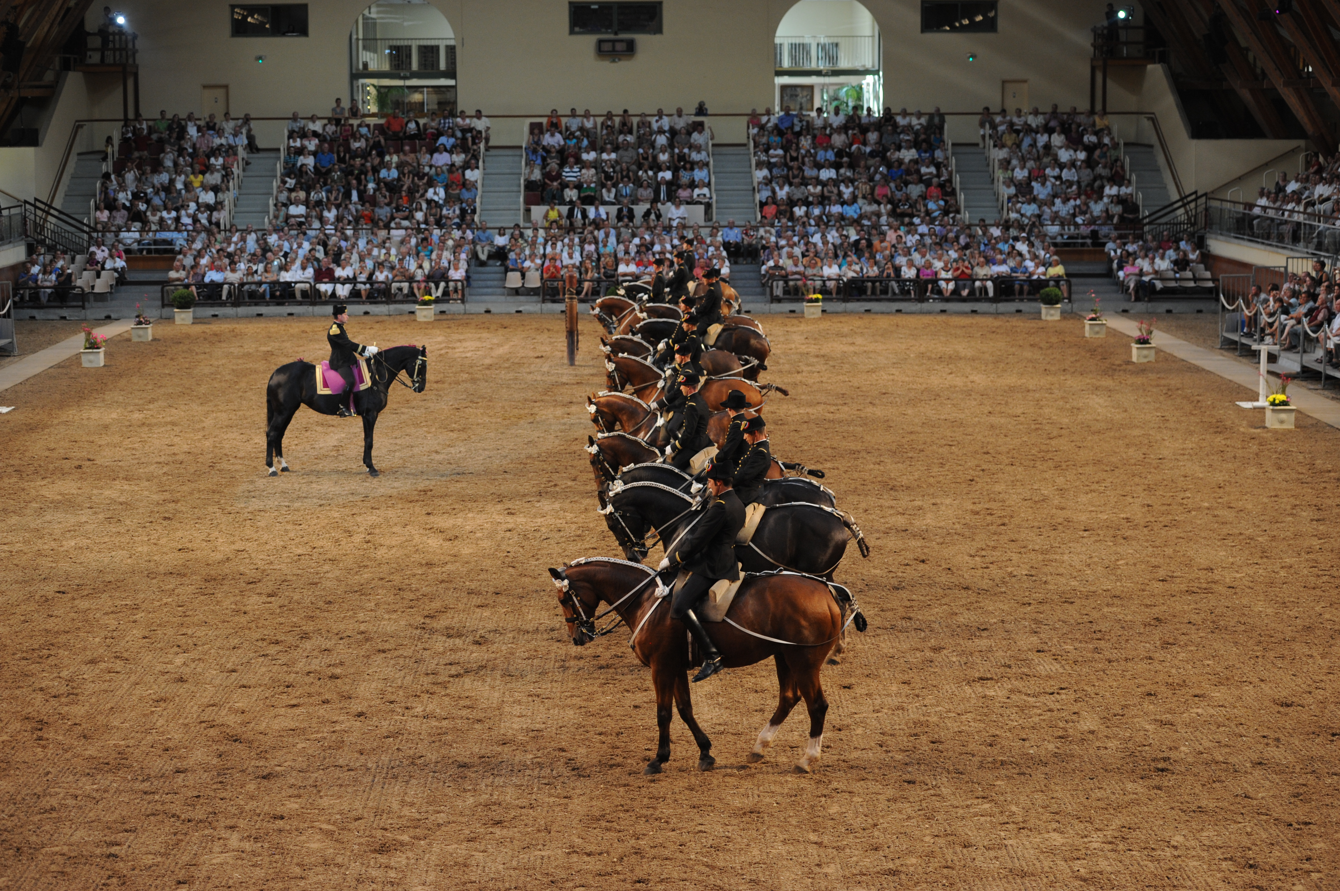 This photograph was taken by a Wikipedian, or provided by the Cadre noir, during a special day in May 2012 English | français | +/−